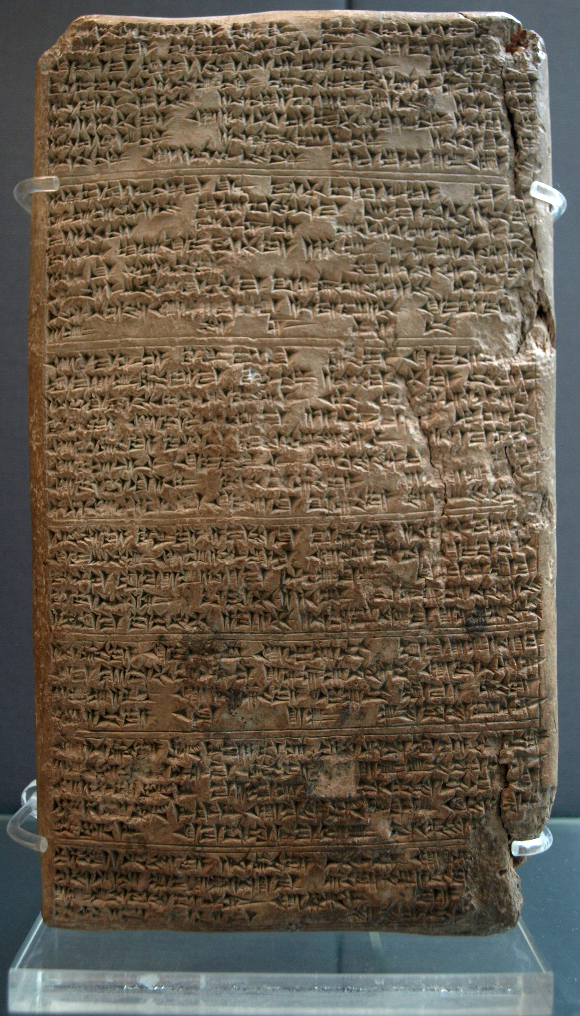 One of the "Amarna Letters", in this case a cuneiform tablet from Tushratta, King of the Mitanni, to the pharaoh Amenhotep III-(Akhenaten's father), circa 1350 BC, and found in El-Amarna-(1 of 13 letters authored by Tushratta). This letter contains a negotiation of marriage between the pharaoh and Tushratta's duaghter Tadukhipa. (Tushratta letter Amarna letter EA 19, obverse) - WAA 29791.